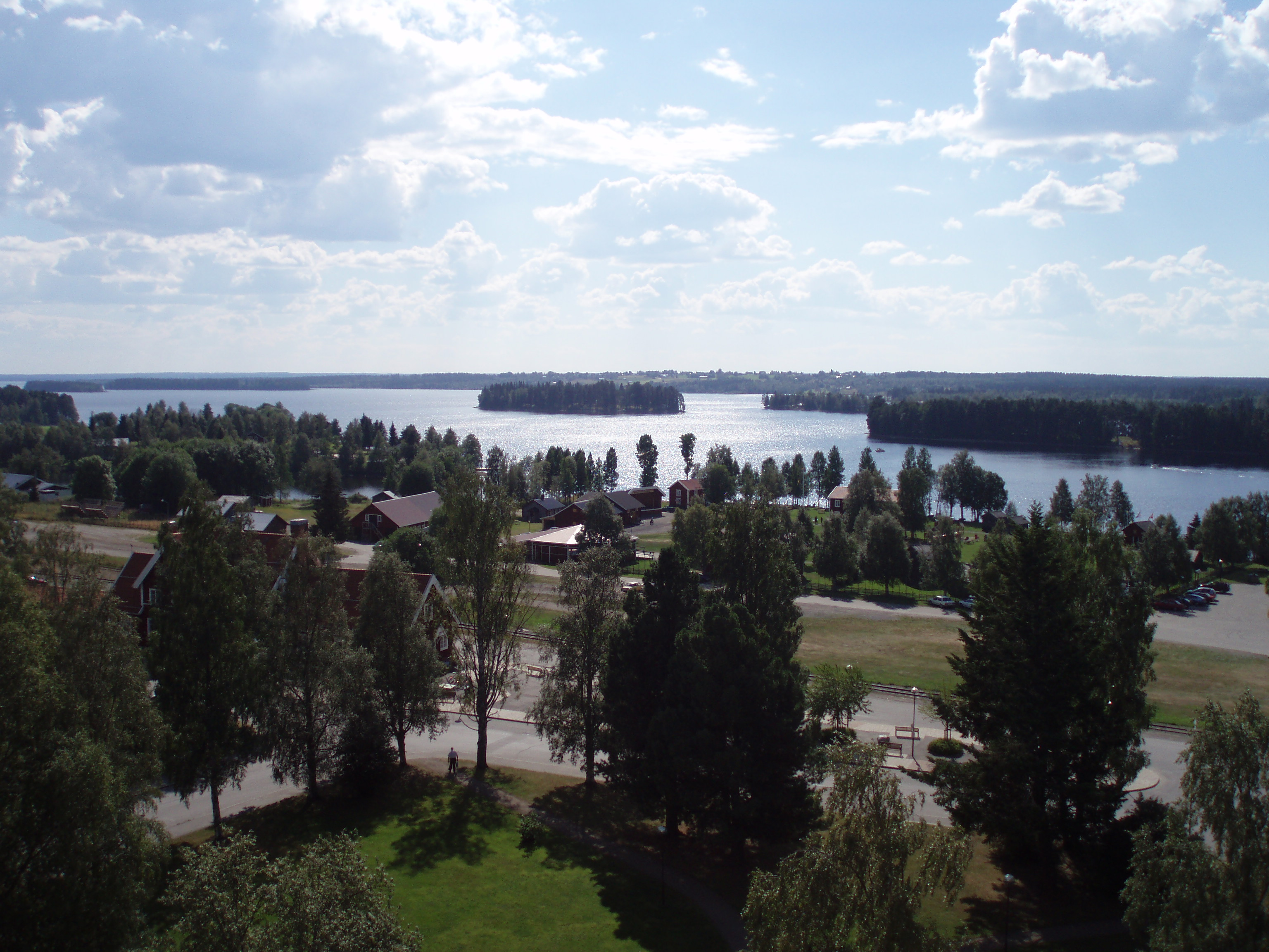 Ströms Vattudal, Strömsund, Sweden. Photo taken in aug. 2006 by me - User:Cucumber